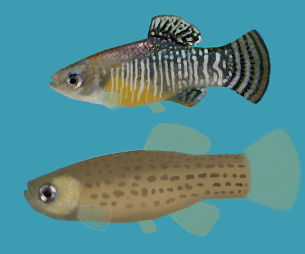 Male (top) and female (bottom) of Spanish toothcarp, also called Spanish pupfish and Iberian killifish (Aphanius iberus).